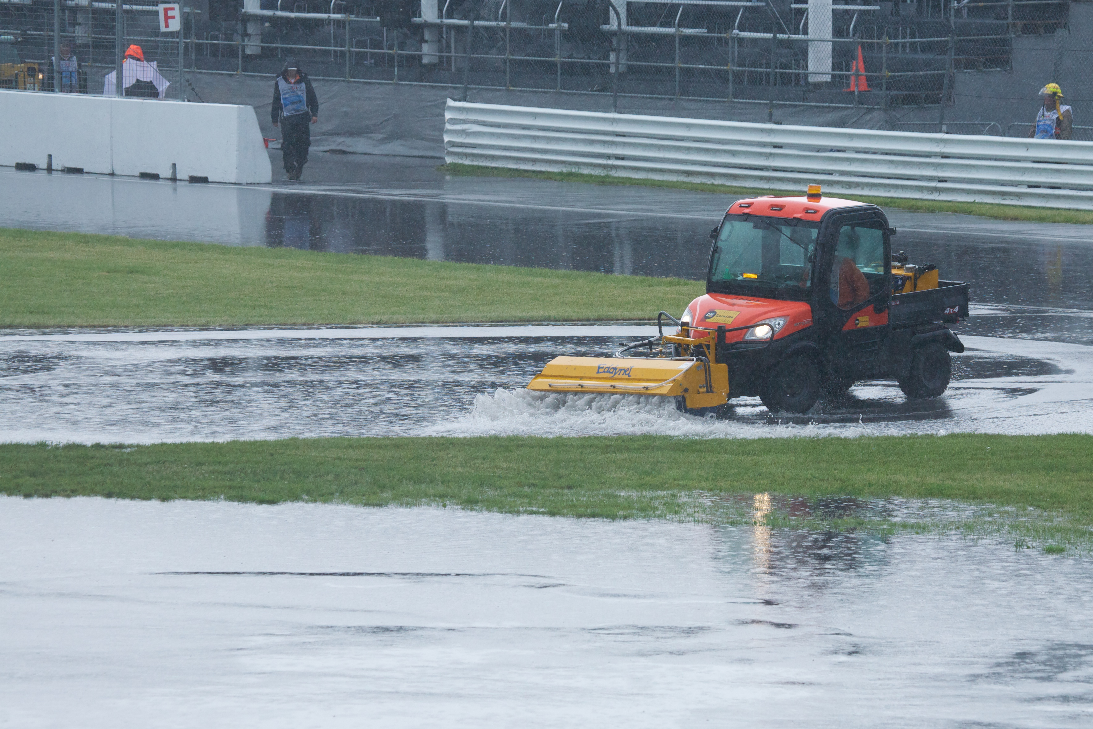 2011 Canadian Grand Prix